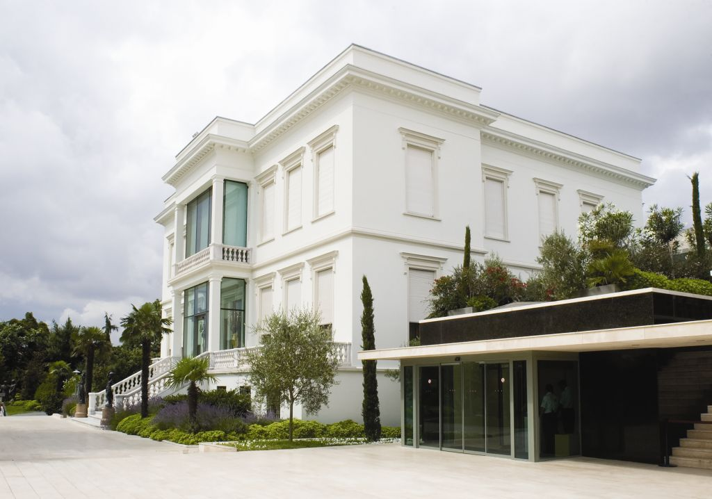 Photo of the mansion "Atlı Köşk" (lit. Kiosk with Horse in Turkish) which is now houses the Sakıp Sabancı Museum. There is a horse statue right in front of the building, hence the name.